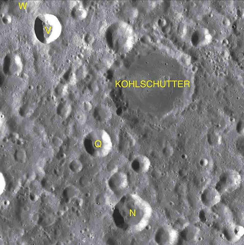 Part of the chart LAC-67 used for the presentation